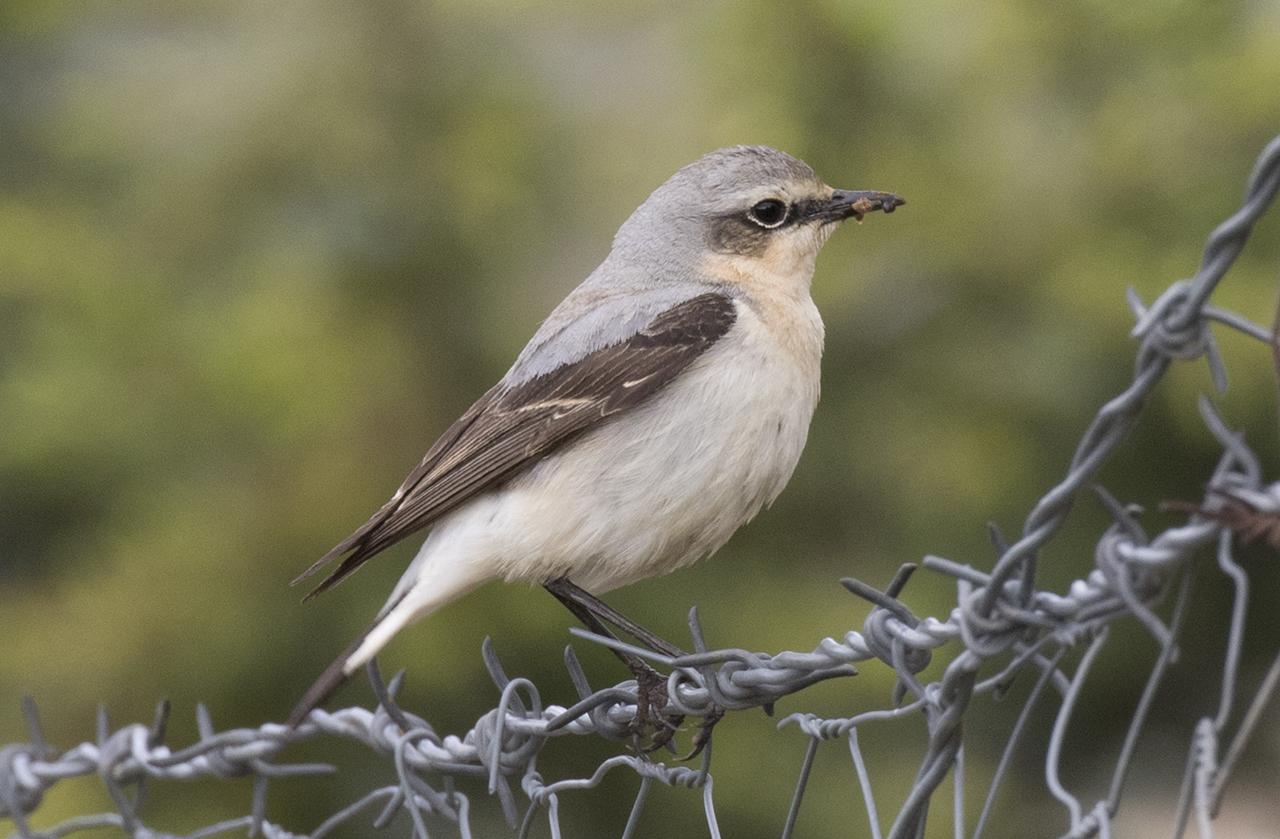 Northern Wheatear (Oenanthe oenanthe). Güzelim, Tufanbeyli - Adana, Turkey.